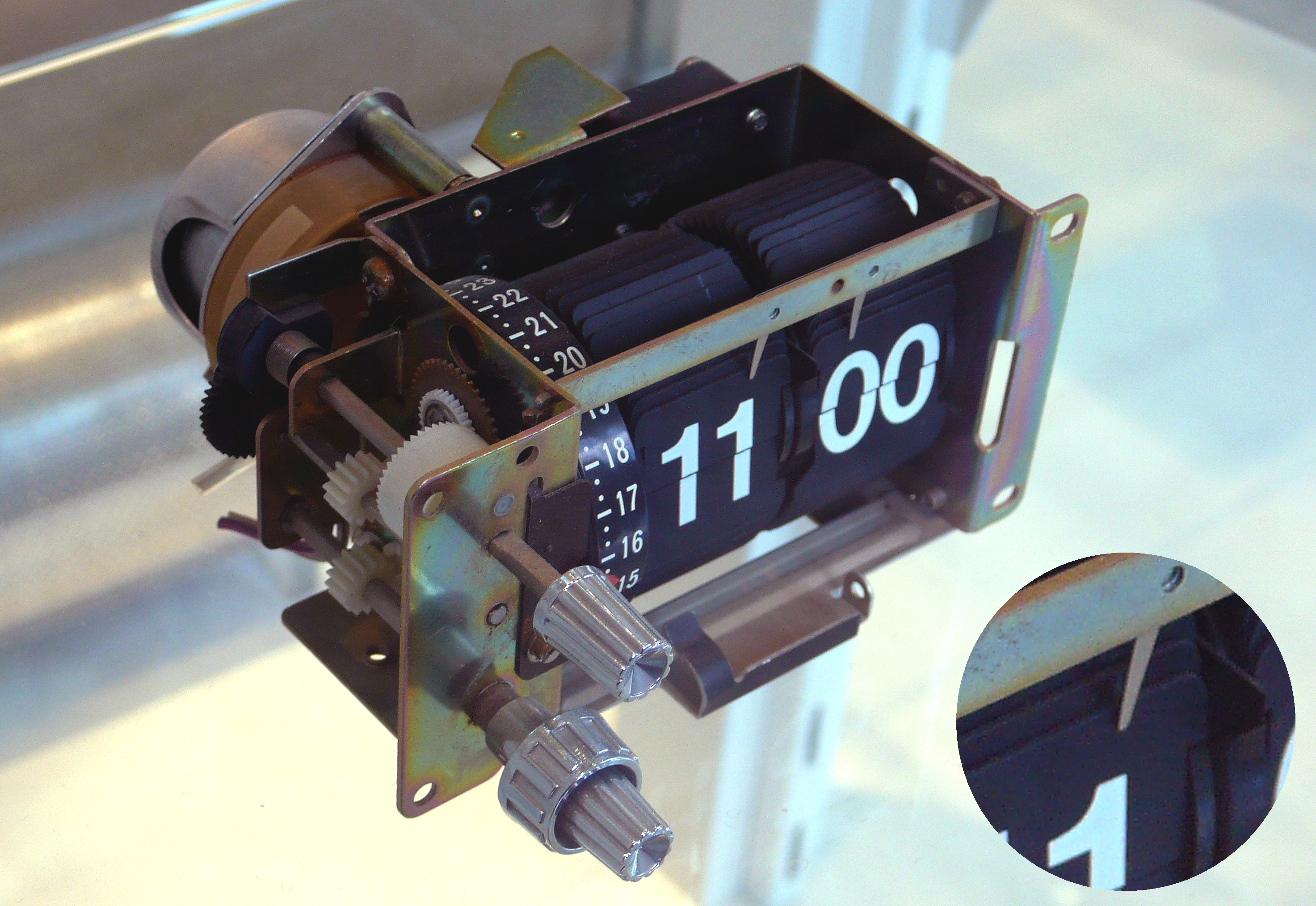 Mechanism of a "split-flap" alarm clock, removed from its case. It displays the time digitally on flaps mounted on wheels. The inset shows the metal tab holding back the top flap. Each complete turn of a wheel advances the wheel on its left by one flap. The wheels are turned by an electric motor (visible in the back) synchronized to the oscillations of the AC current from the wall plug. Therefore, unlike later quartz digital clocks, this is a synchronous clock which is kept to the correct time by the 50/60 Hz AC power grid. The narrow numbered wheel and knobs on the left are the alarm mechanism.